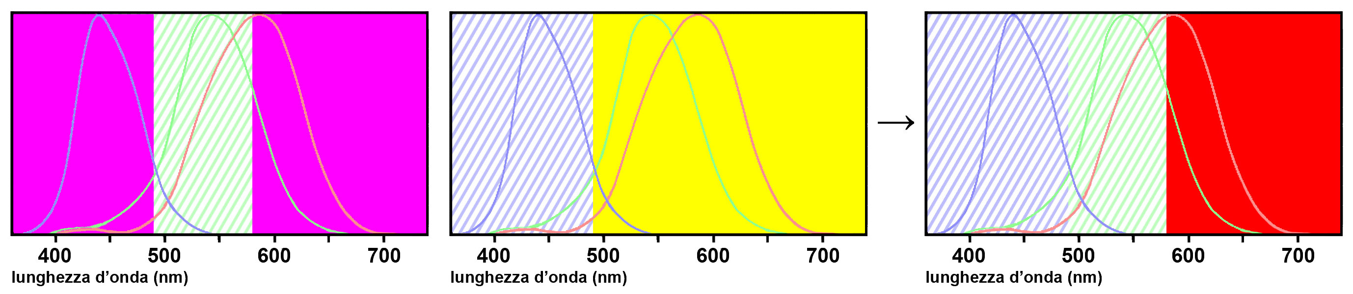 Two ideal subtractive primaries, yellow and magenta, are mixed and produce red. These dyes are ideal since they transmit all frequencies in their pass-bands and nothing in their stop-bands.